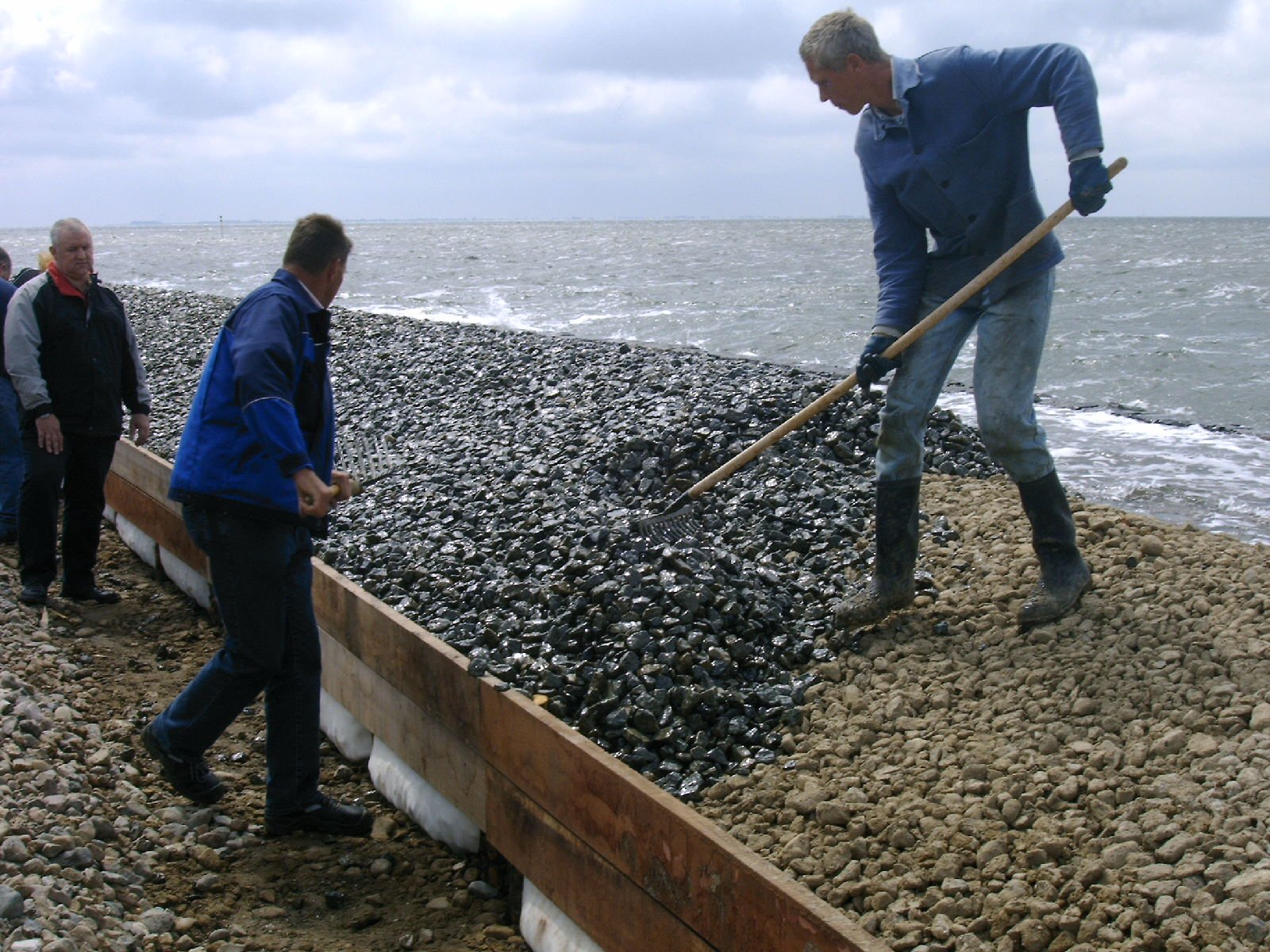 Placement of an Elastocoast revetment at a sea defence on a tiny island in the German Waddensea, Hallig Gröde; an Elaastocoast revetment is appropriate because of the difficult access to the island